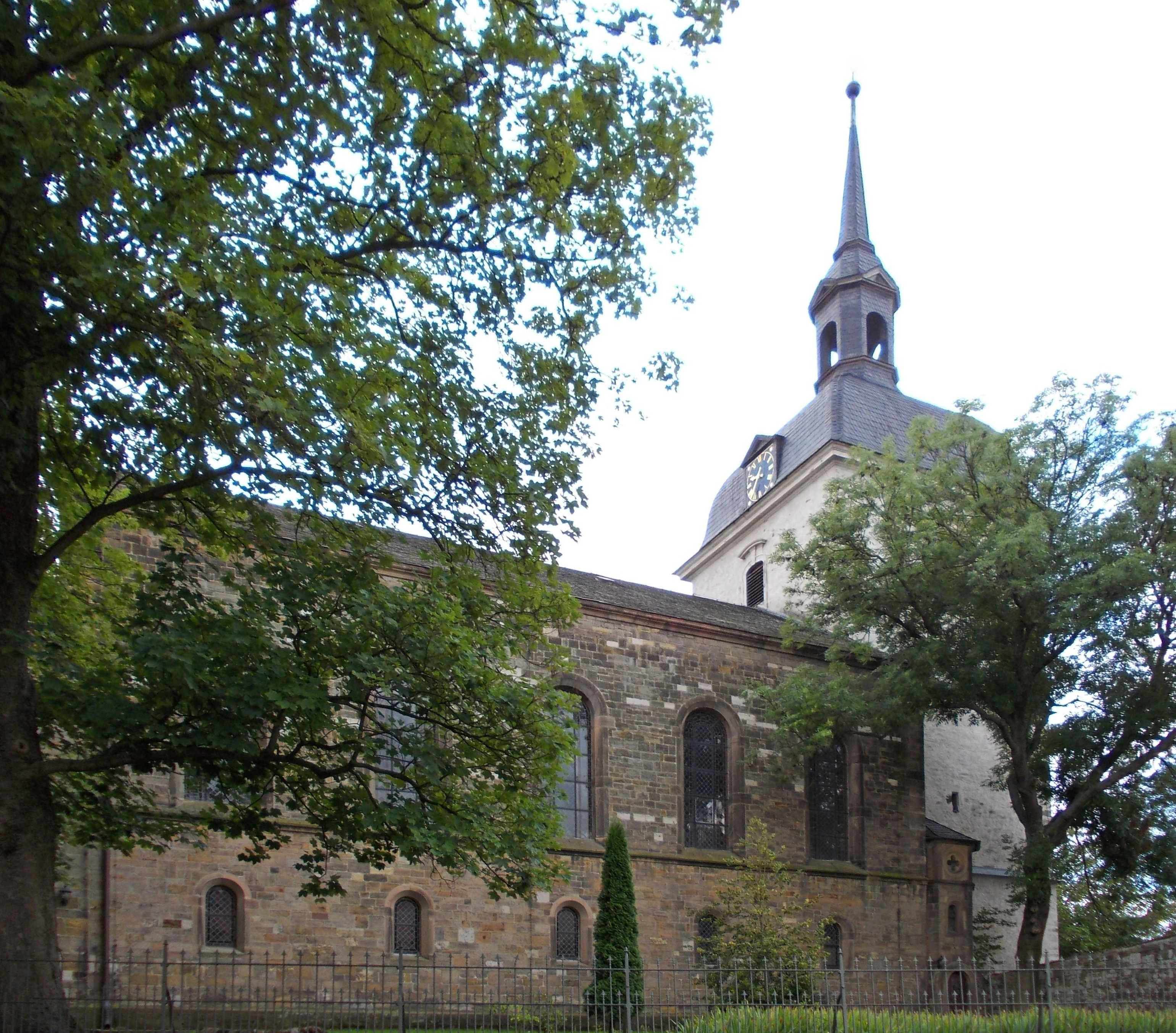 St. John's Church in Schafstädt (Bad Lauchstädt, district of Saalekreis, Saxony-Anhalt)